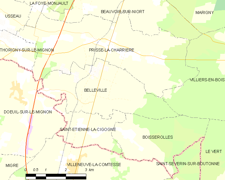 Map of French municipality Belleville